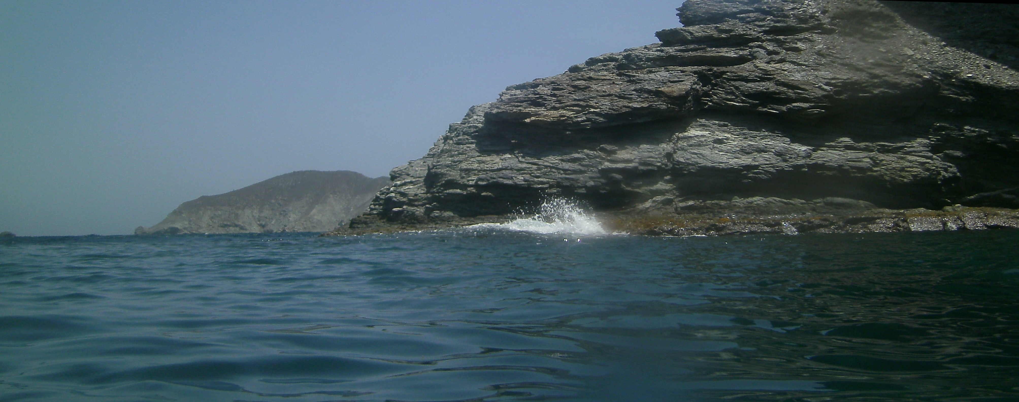 View of Isla Aguja, Tayrona National Park, main dive site from Taganga, Santa Marta, Colombia